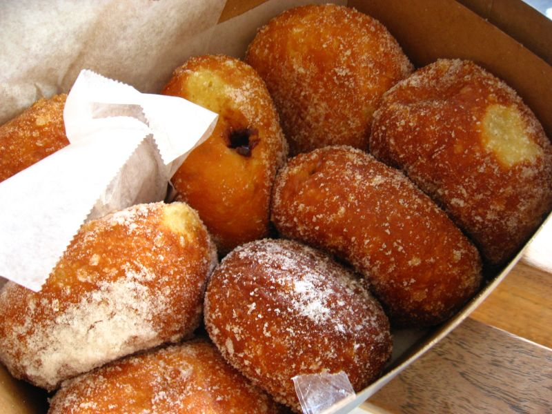 (Leonard's Bakery, Honolulu, Hawaii) we couldn't decide!, so ended up getting at least one of each of the flavor-filled (custard, chocolate, haupia, guava) malasadas, a cinnamon plain one, and an original one